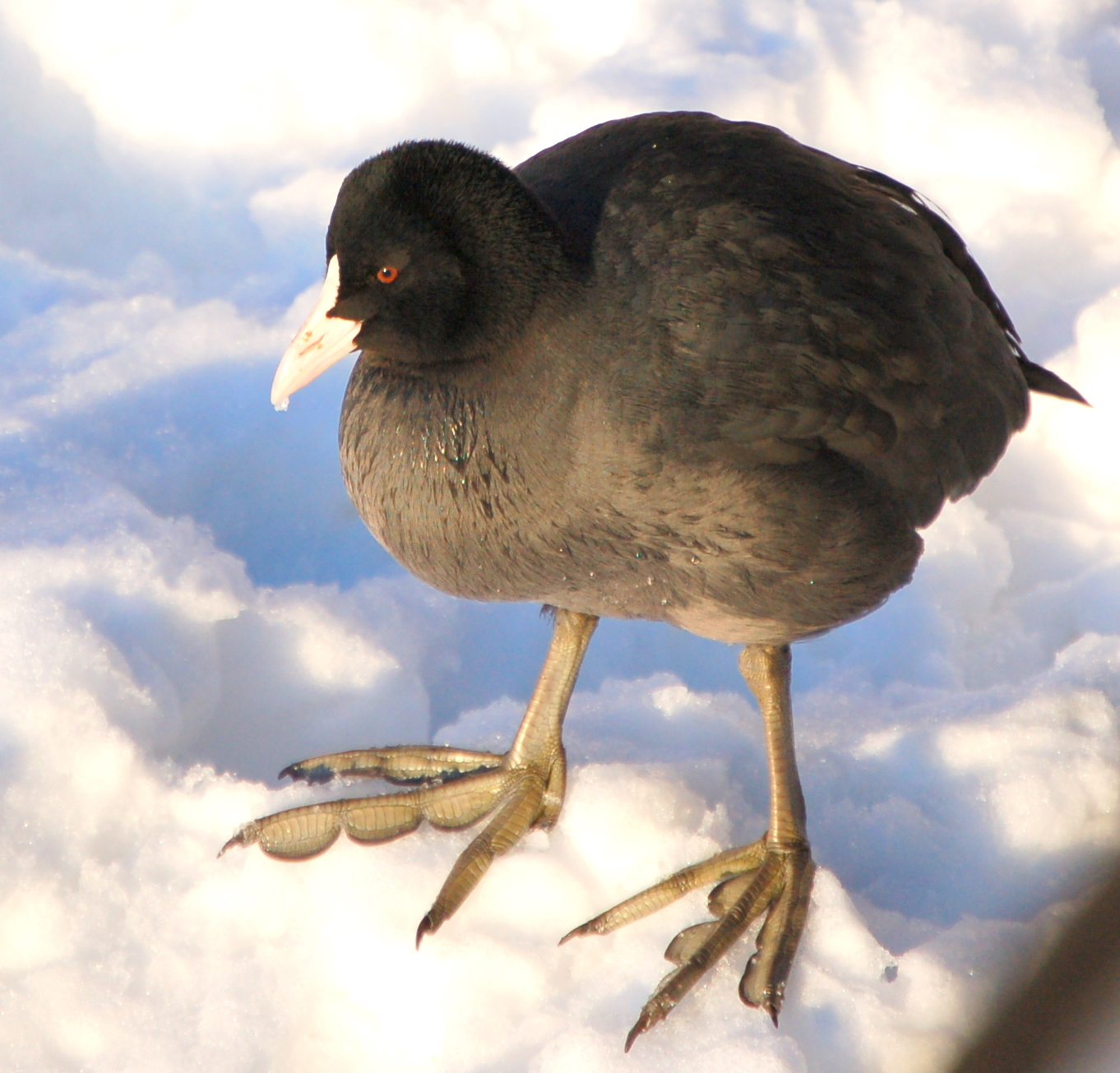 Eurasian Coot, Fulica atra - Larvik, Norway Januar 27.